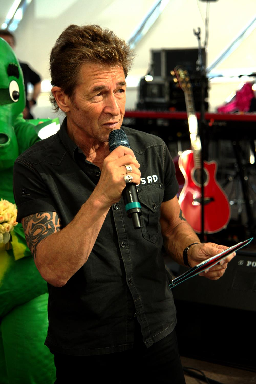 The Musician Peter Maffay at the Headquarter of the Leipziger Volkszeitung